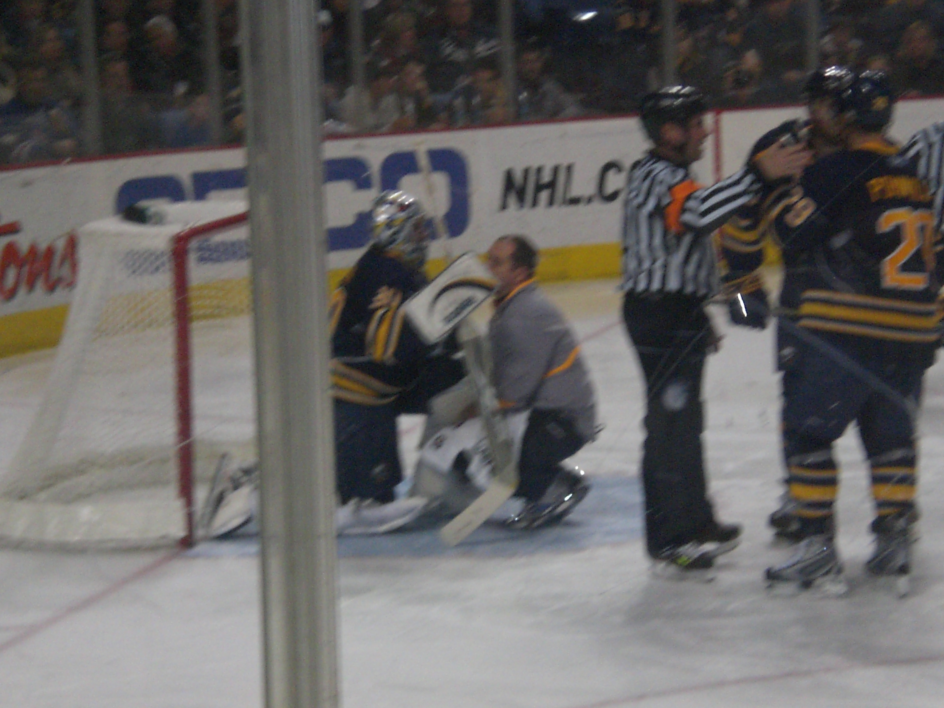 Ryan Miller, Goalie, sprains his angle.